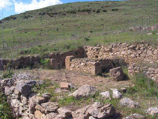 monte San Mauro, Caltagirone, Italia